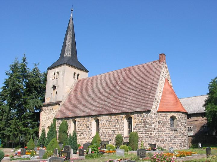 Siethen, part of Ludwigsfelde in the Landkreis (rural district) Teltow-Fläming, Brandenburg. Church, probably from 13th/14th century.